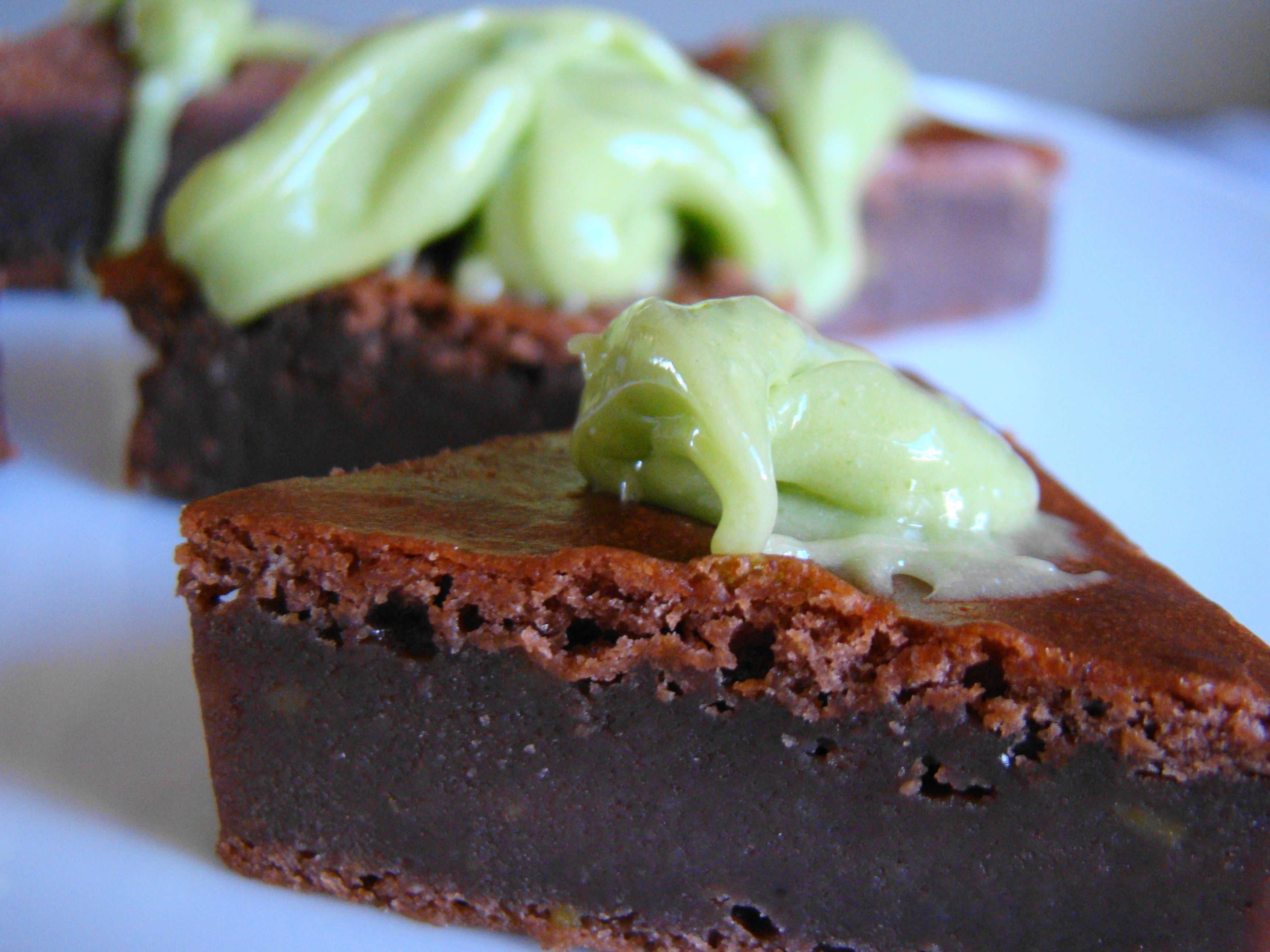 Vegan cocoa-avocado brownies, made with coconut milk, 5 June 2010.